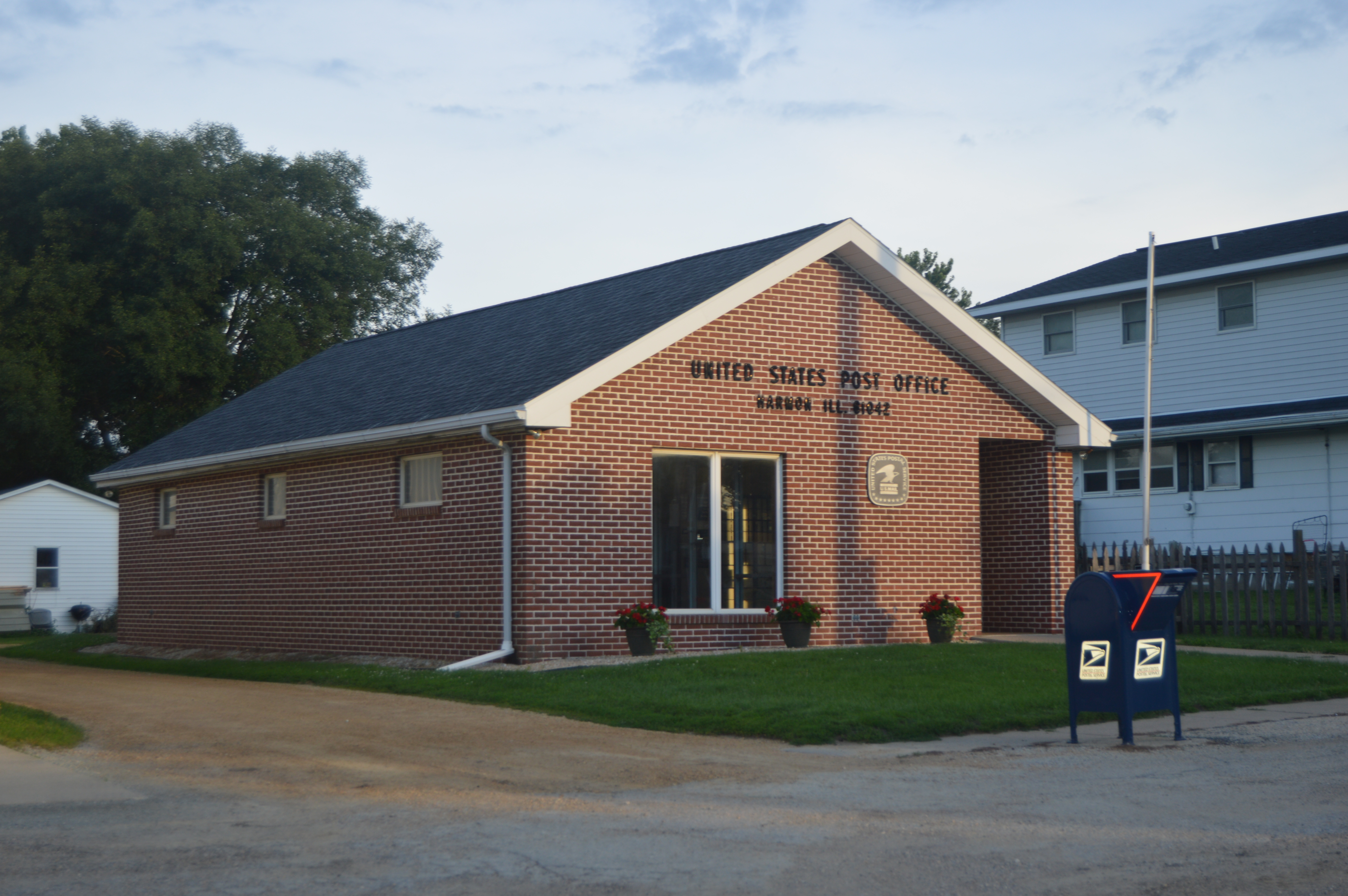 Front and southern side of the post office in Harmon, Illinois, United States, located at 205 N. First Street.